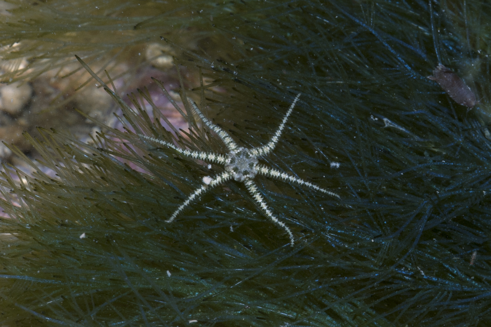 Tiny in-a-sponge brittle stars (Ophiactis savignyi). More about this brittle star on the wildfacts sheets on wildsingapore. For a high res version of this photo, please review the details on about using my photos. When making the request, please include this reference: 080919sntd0619